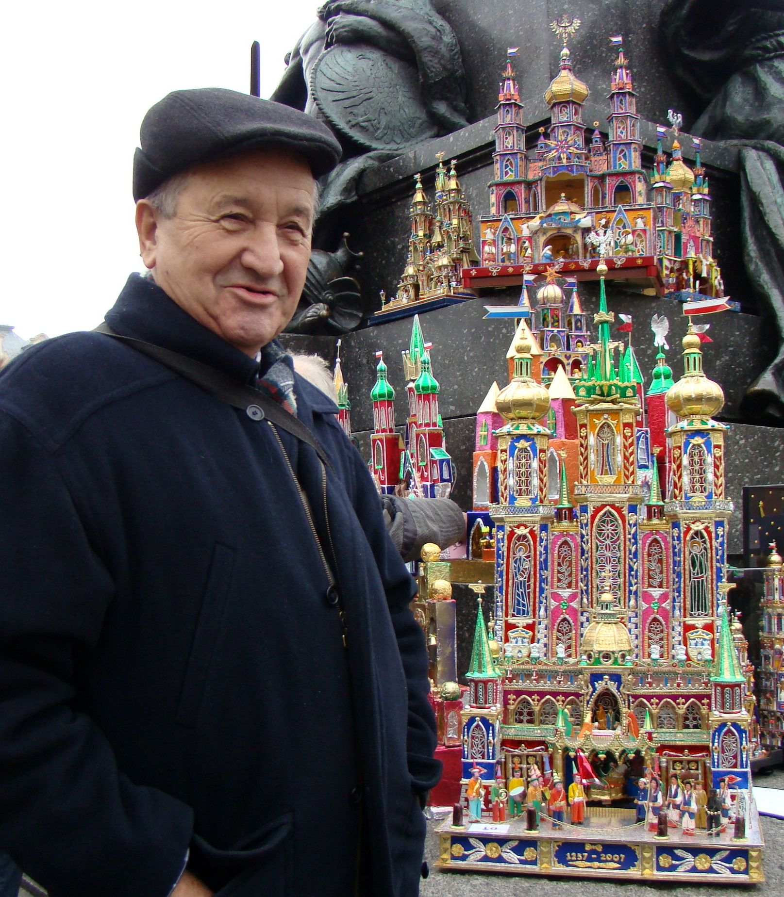 Roman Sochacki - krakow cribmaker